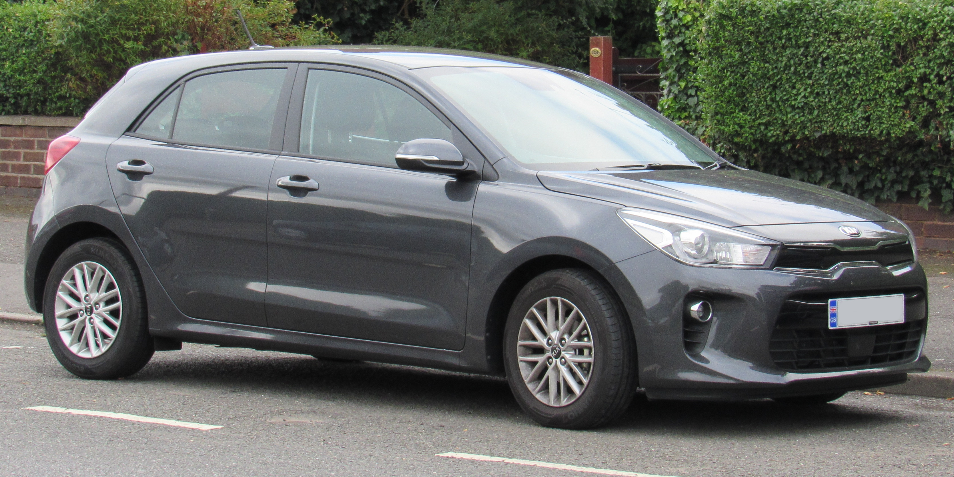 2017 Kia Rio 2 1.3 Front Taken in Warwick